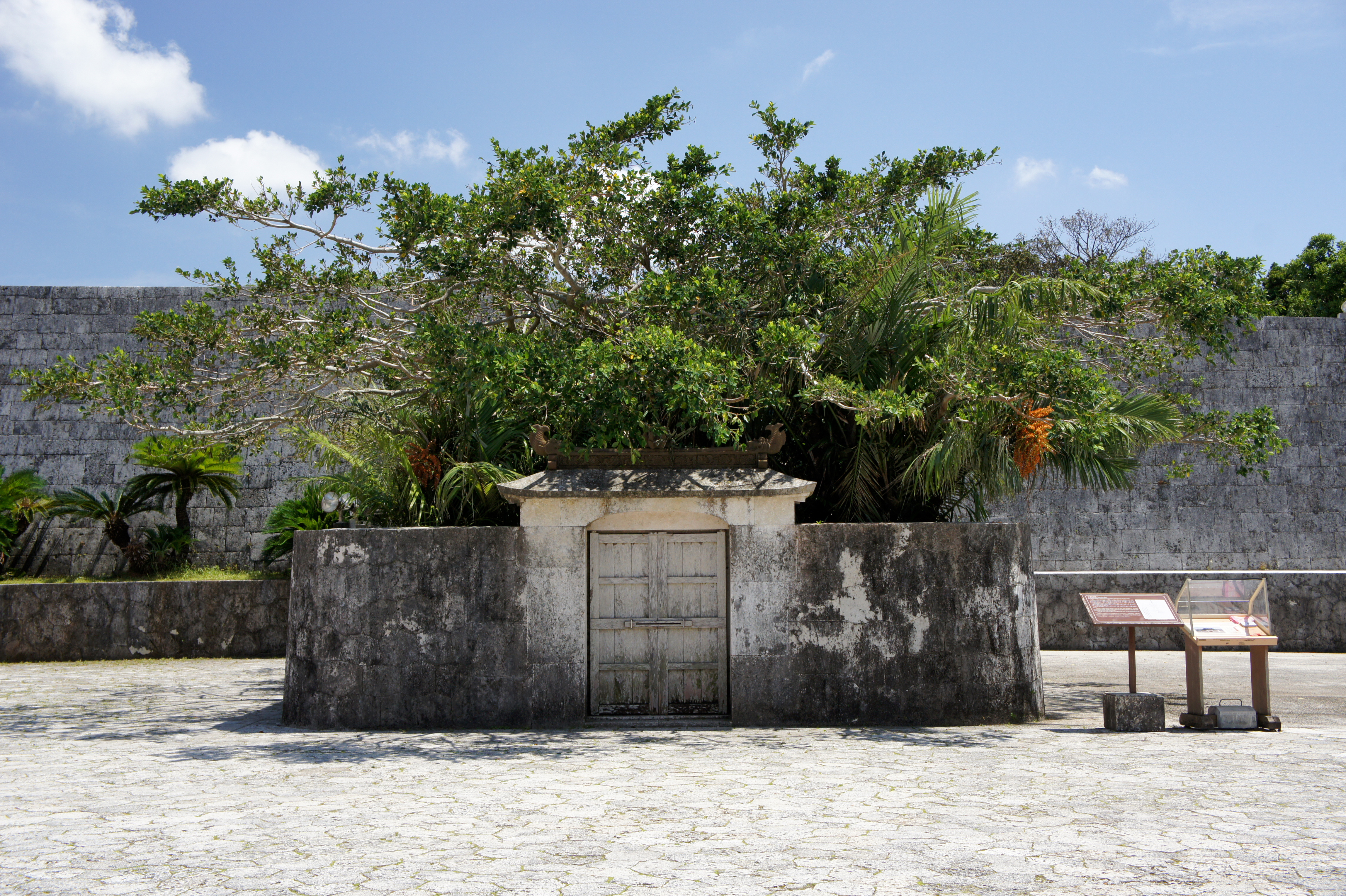 at Shuri Castle in Naha, Okinawa prefecture, Japan